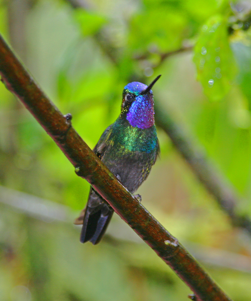 Purple-throated Mountain-gem photo taken on Poas Volcano, Costa Rica.